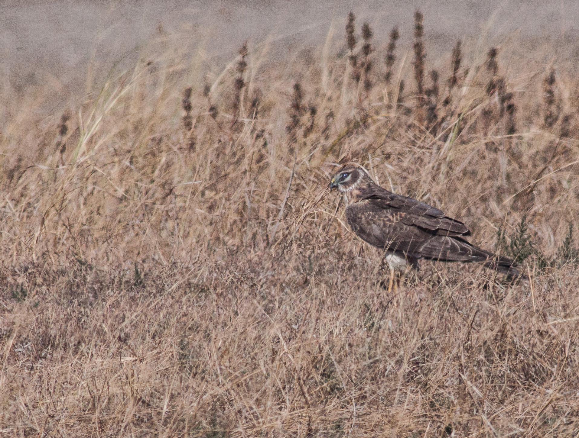 Pallid Harrier (Female), captured from, Vasai, Maharashtra, India